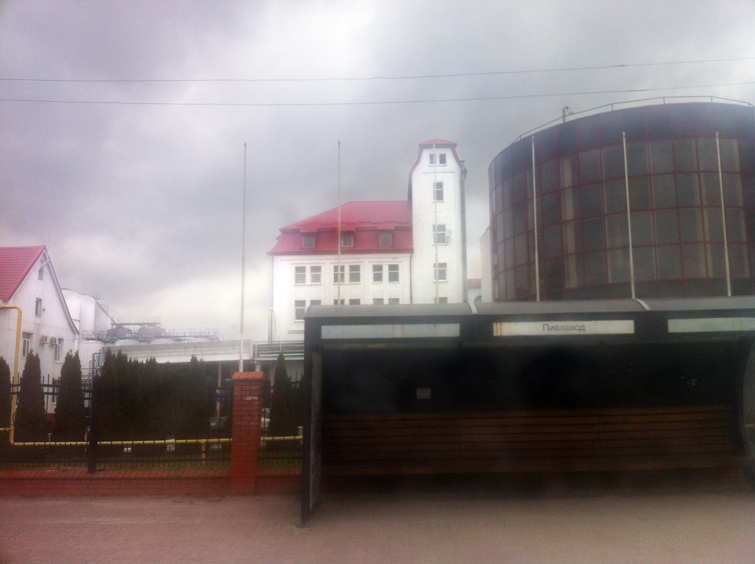 Bus stop "Brewery" at Gagarina Street in Kaliningrad.